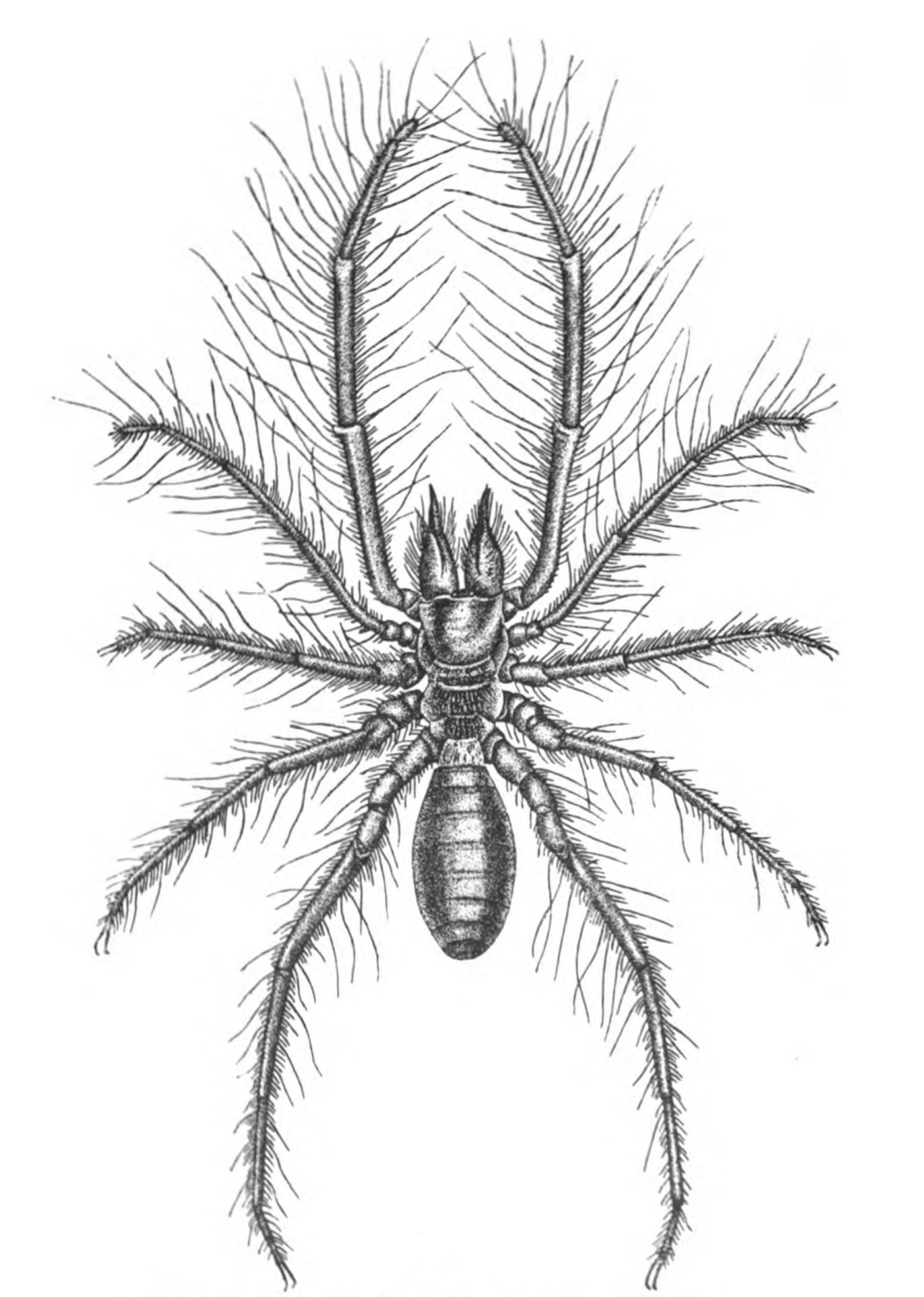 Fig. 101.—Galeodes. (From the Royal Natural History.)